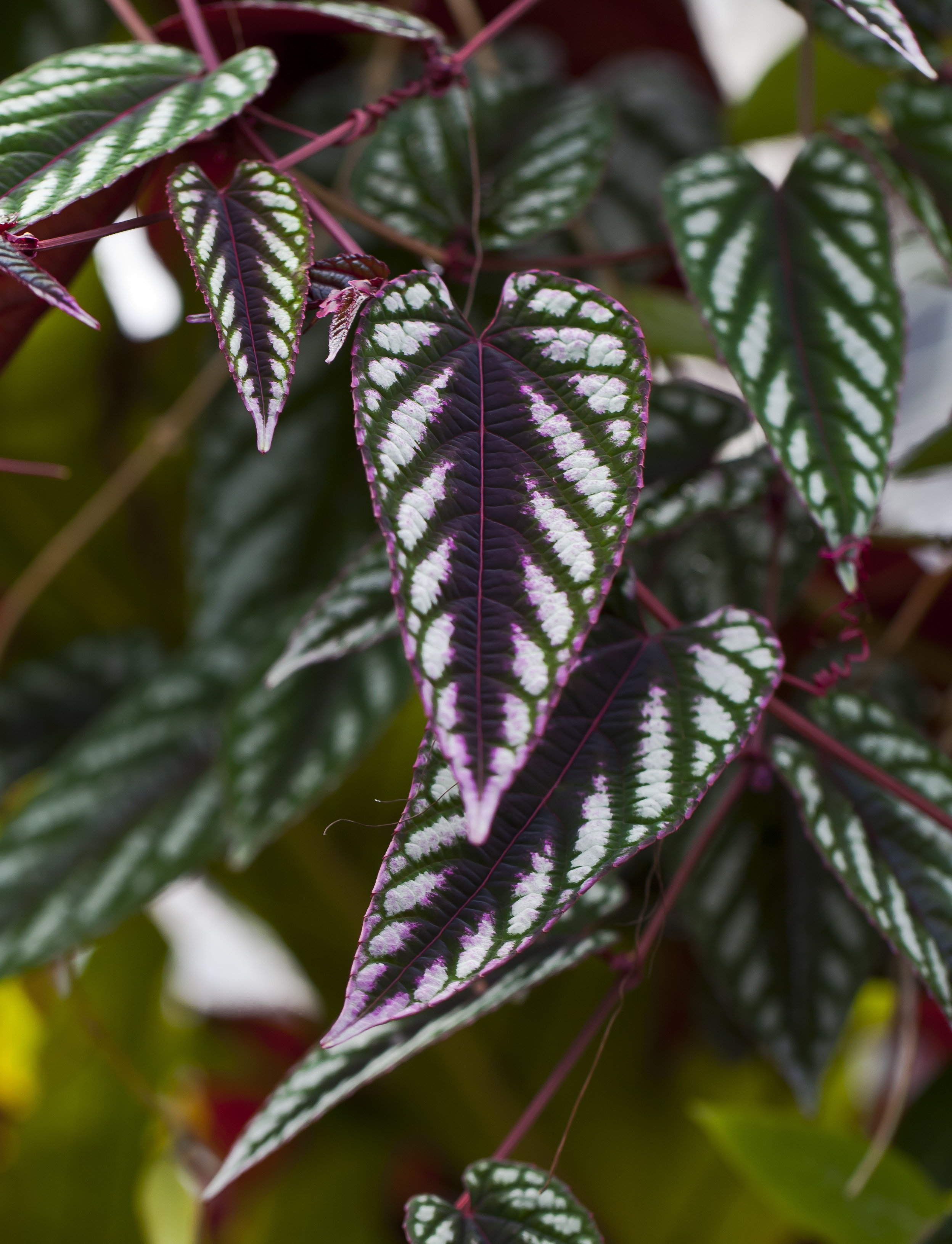 Cissus javana, Tallinn Botanic Garden, Estonia